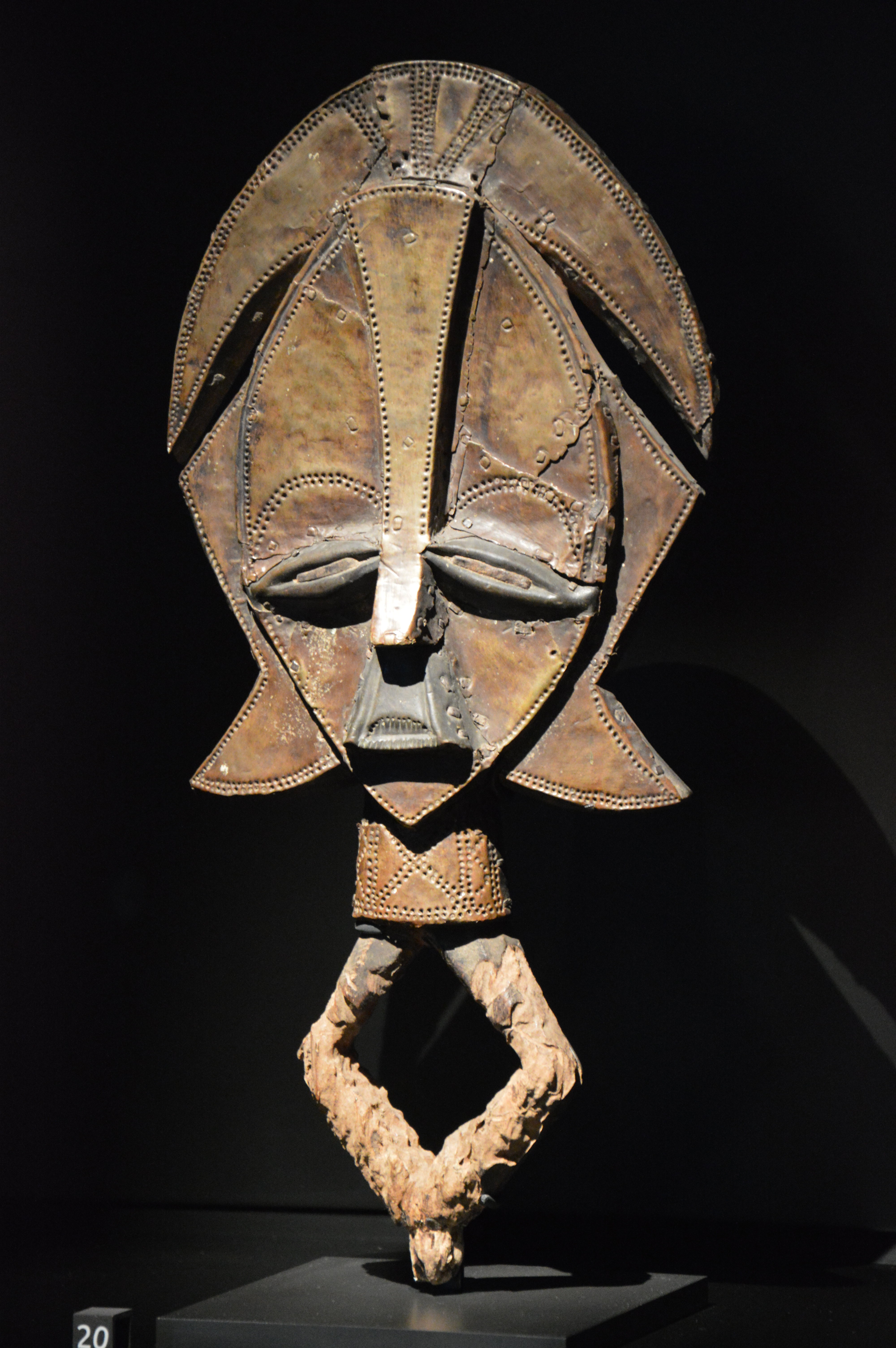 Figure from reliquary ensemble. Odumbo. Gabon.